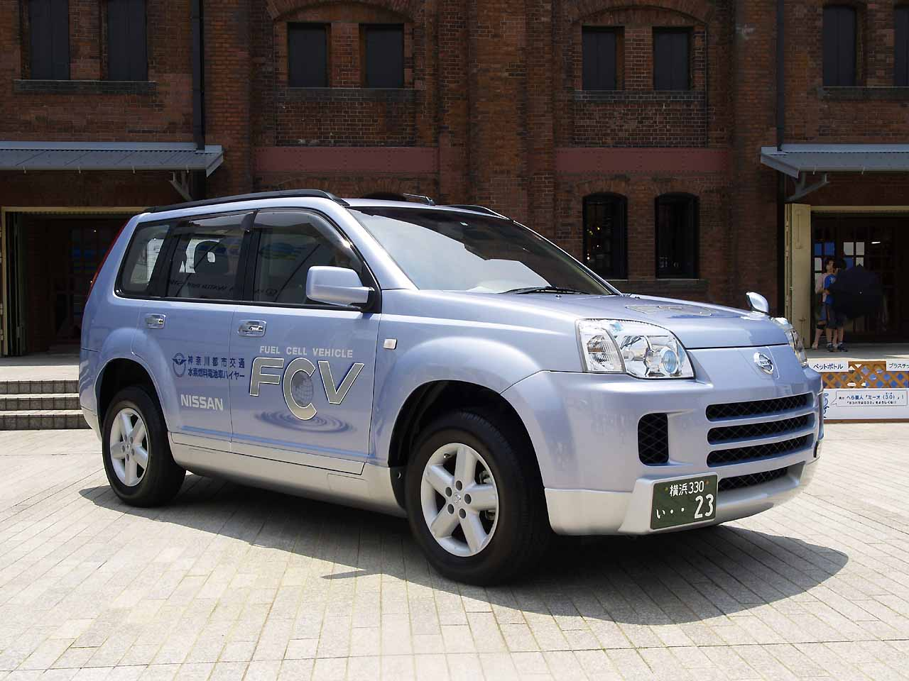 Nissan X-TRAIL FCV operated by Kanagawa Toshi Kotsu, shown in "Eco Car World Yokohama". The 1st of hire operation with fuel cell vehicle in Japan.